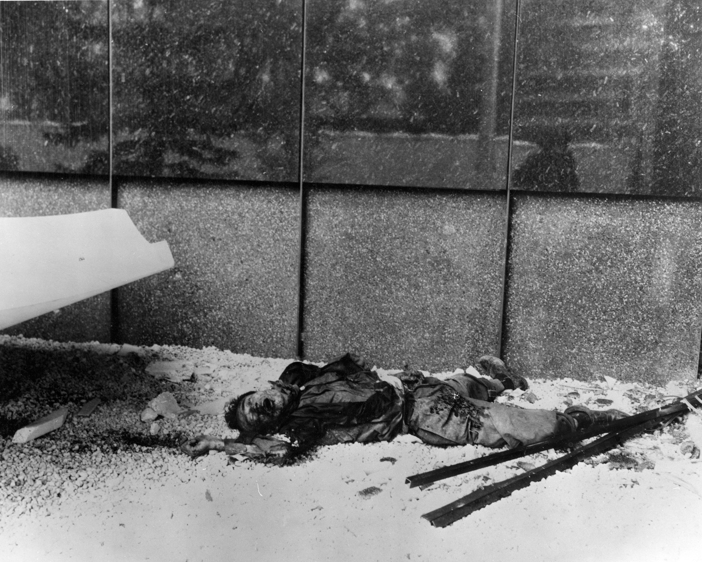 AVSG-S-1031-22/AGA68 RVN Saigon A dead Viet Cong at the U.S. Embassy